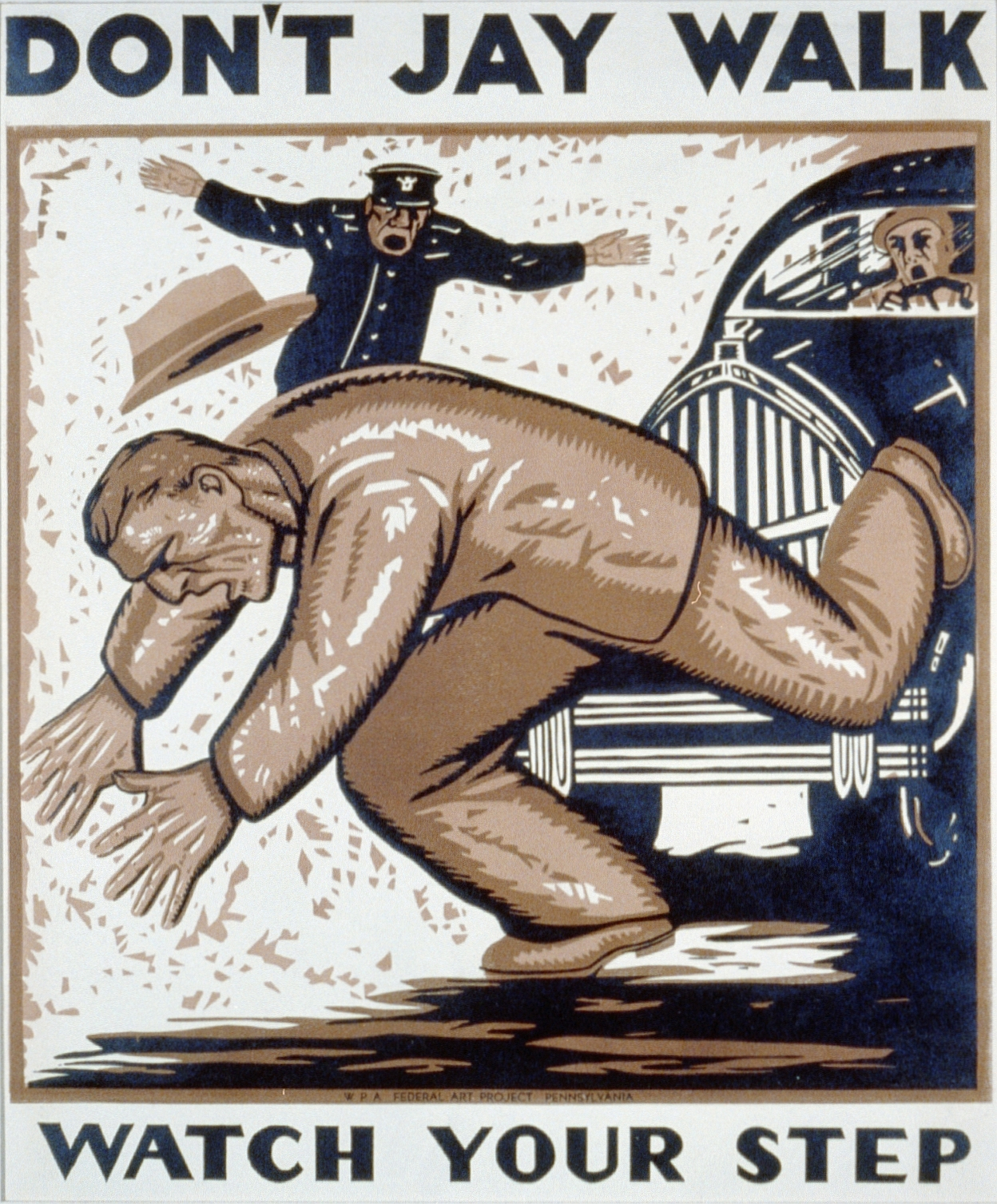 Color woodcut poster showing a man being hit by an automobile while crossing the street and warning pedestrians: "Don't jay walk. Watch your step."